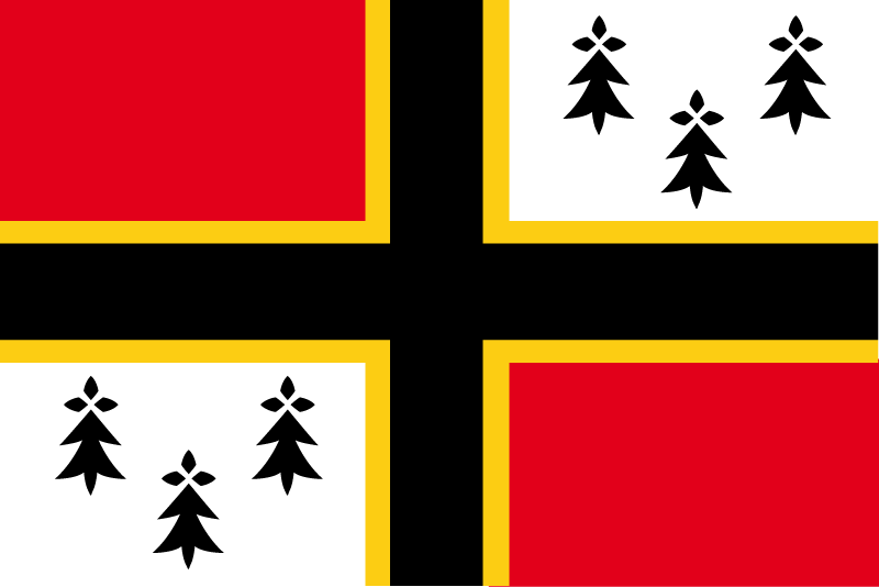 Flag of Saint-Malo Country (Brittany)